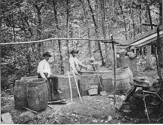 Revenue Men at the site of a Moonshine distillery in Kentucky, 1911 or before.